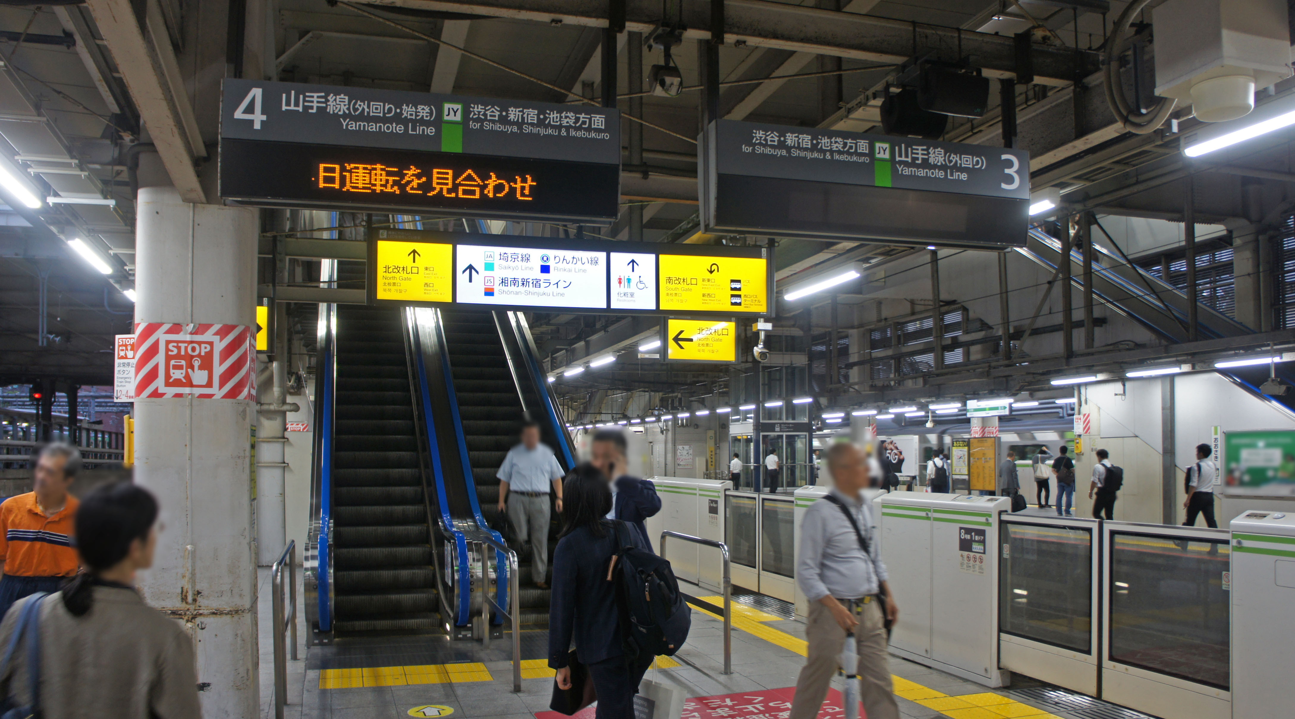 Platform 3・4 (Yamanote-Line) of JR Osaki Station